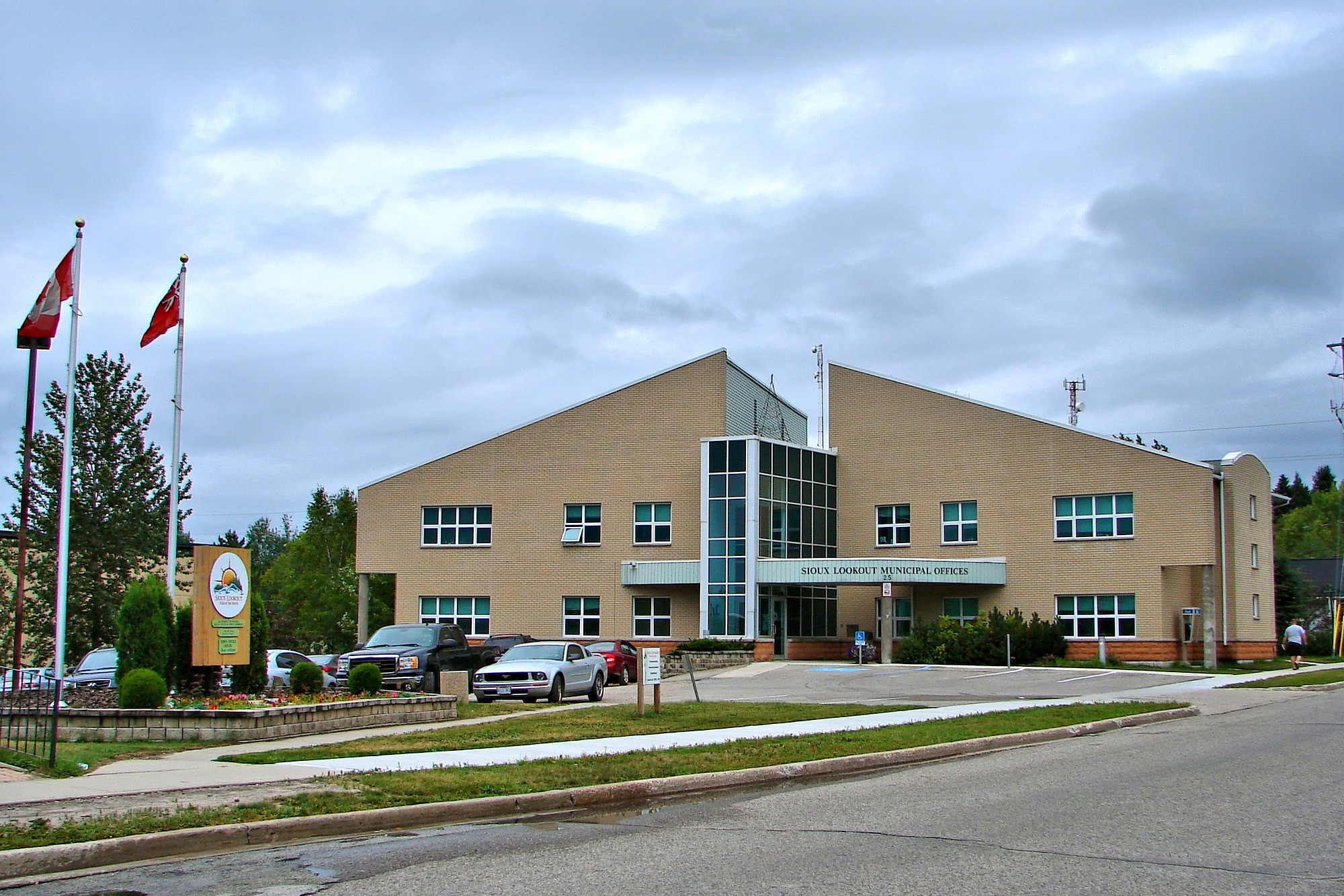 Municipal office of Sioux Lookout, Ontario, Canada